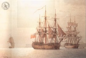 HMS Glory (1788) and HMS Valiant, time and location unspecified.